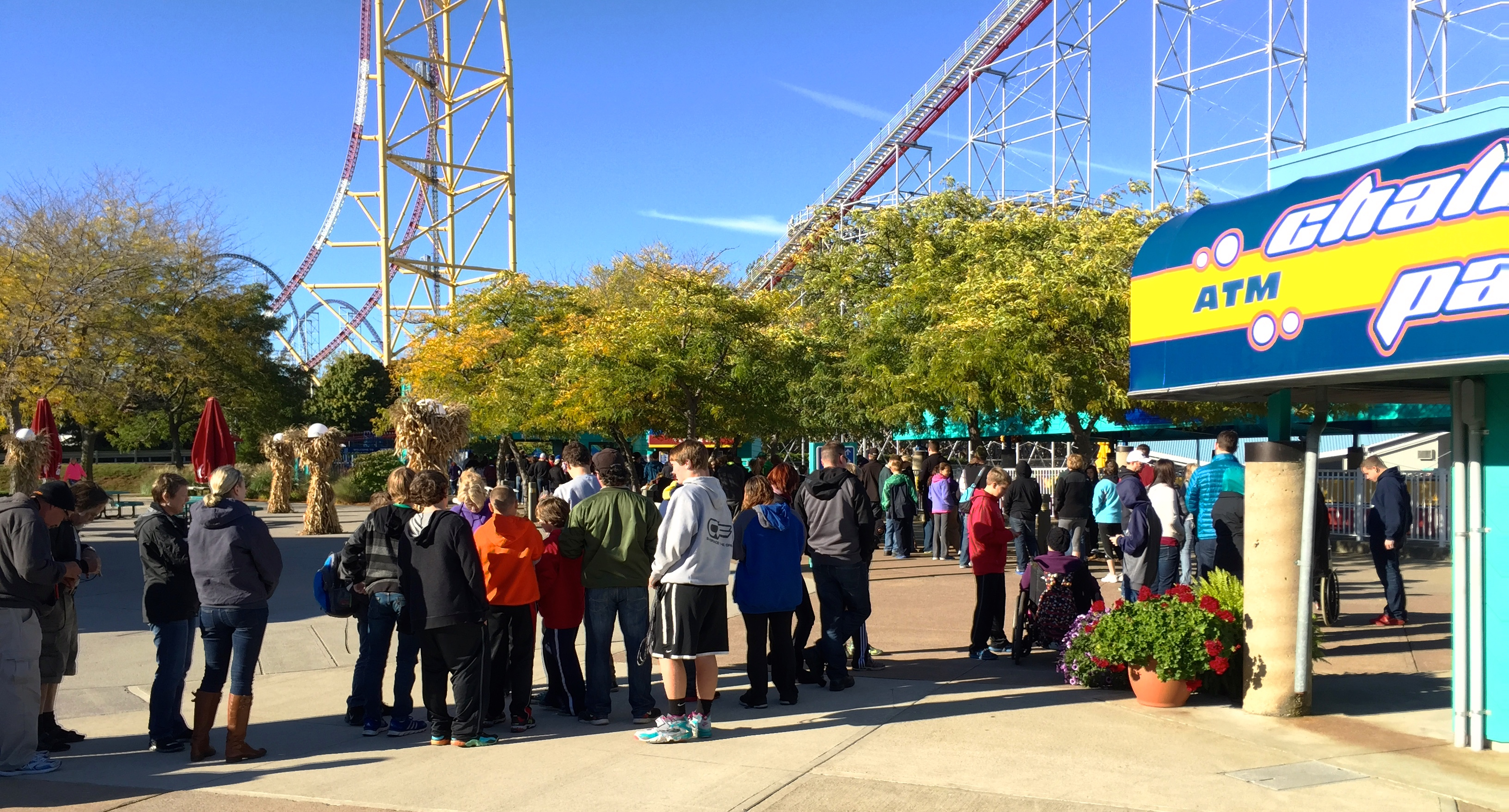 Line into Cedar Point at entrance near Challenge Park.